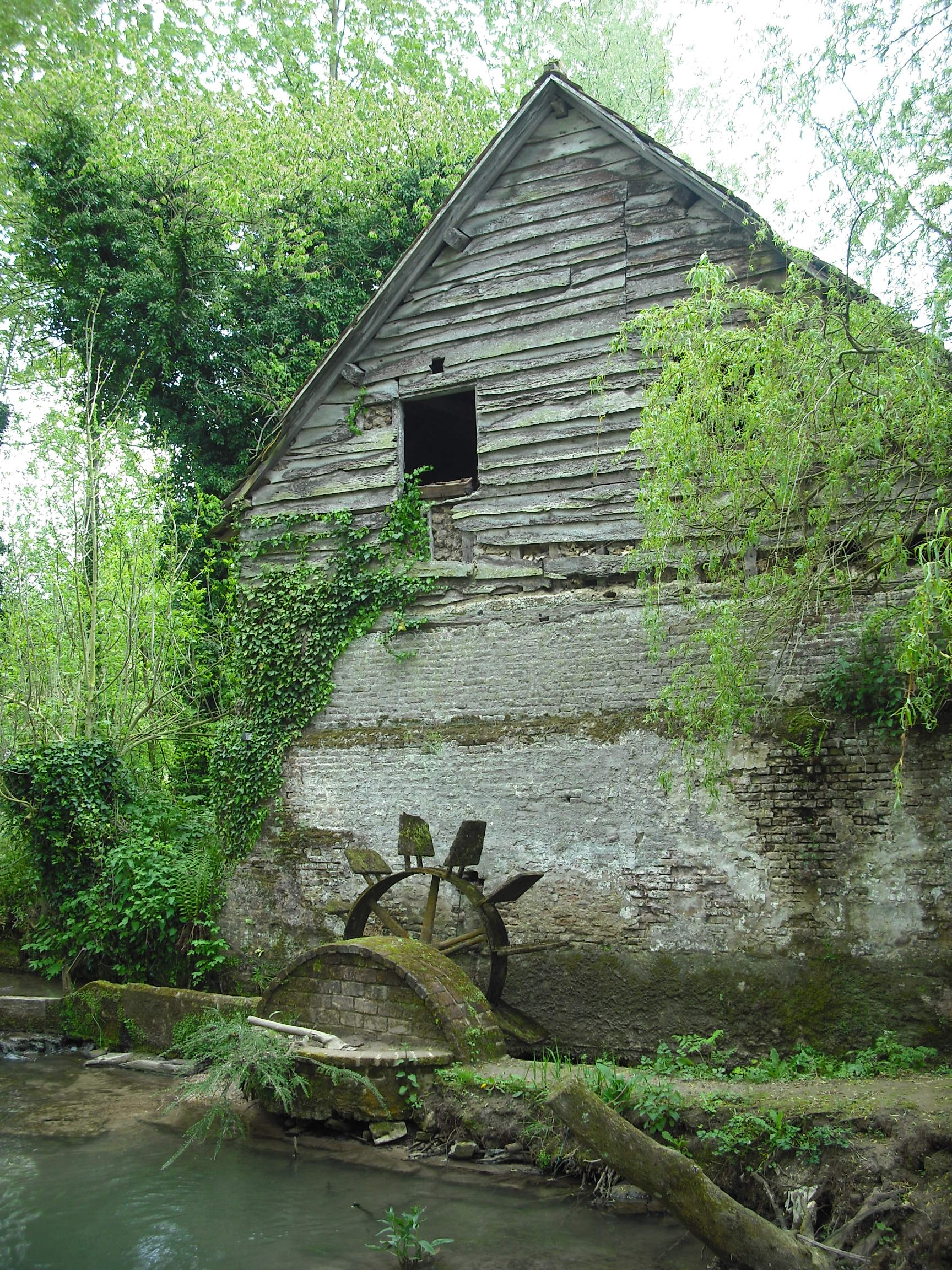 The watermill at Cavron-St.Martin